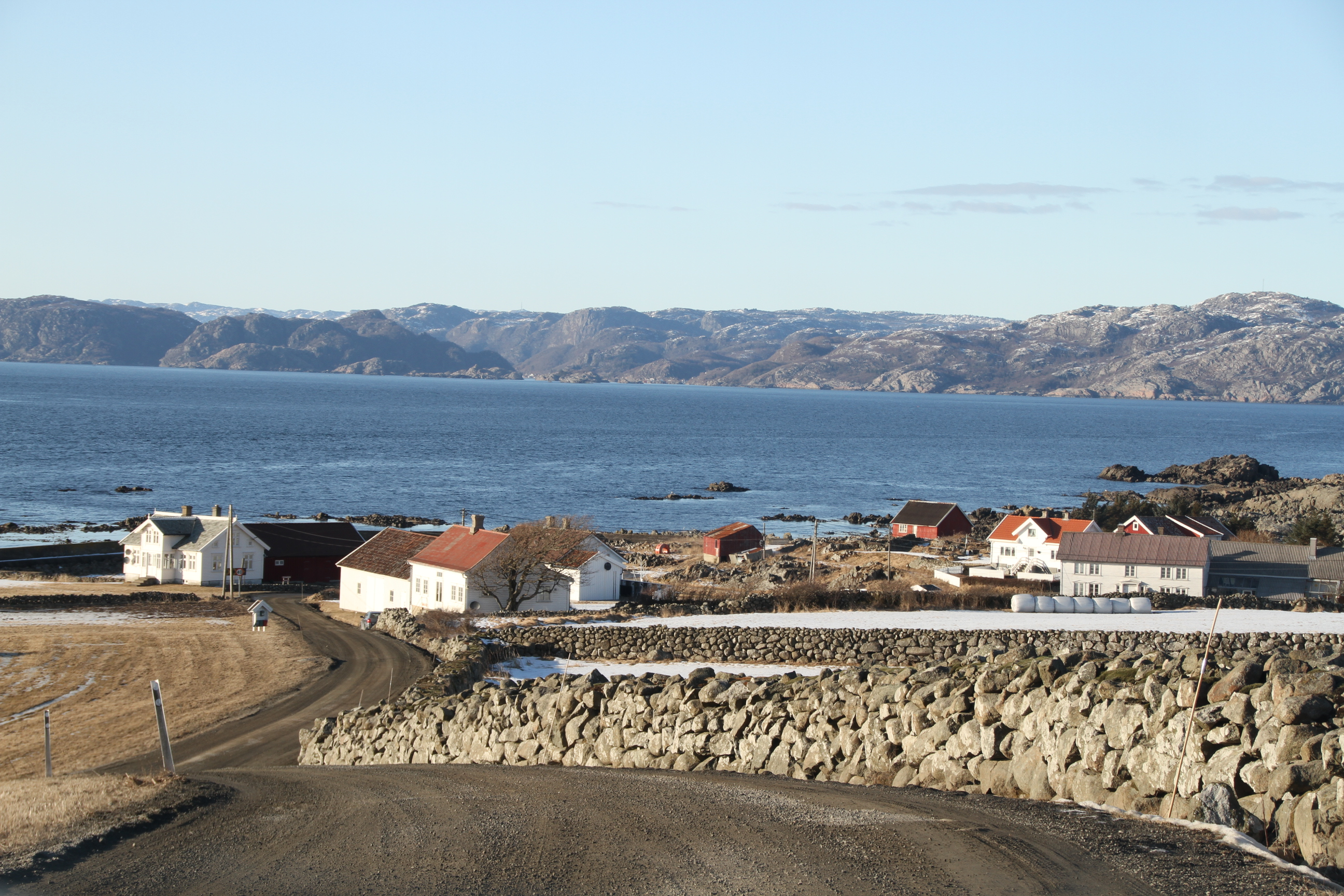 Image from along the western coast of the Lista peninsula, in Farsund municipality - Vest-Agder county, south Norway.